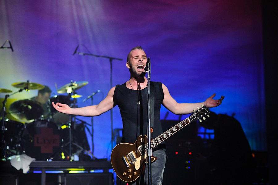 Chris Shinn, lead singer of Live, performing at the Strand-Capitol Performing Arts Center on March 12, 2012.